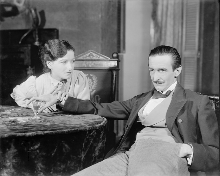 Joanna Roos and Osgood Perkins during a 1930 performance of the Chekhov play Uncle Vanya at the Cort Theatre in New York City.